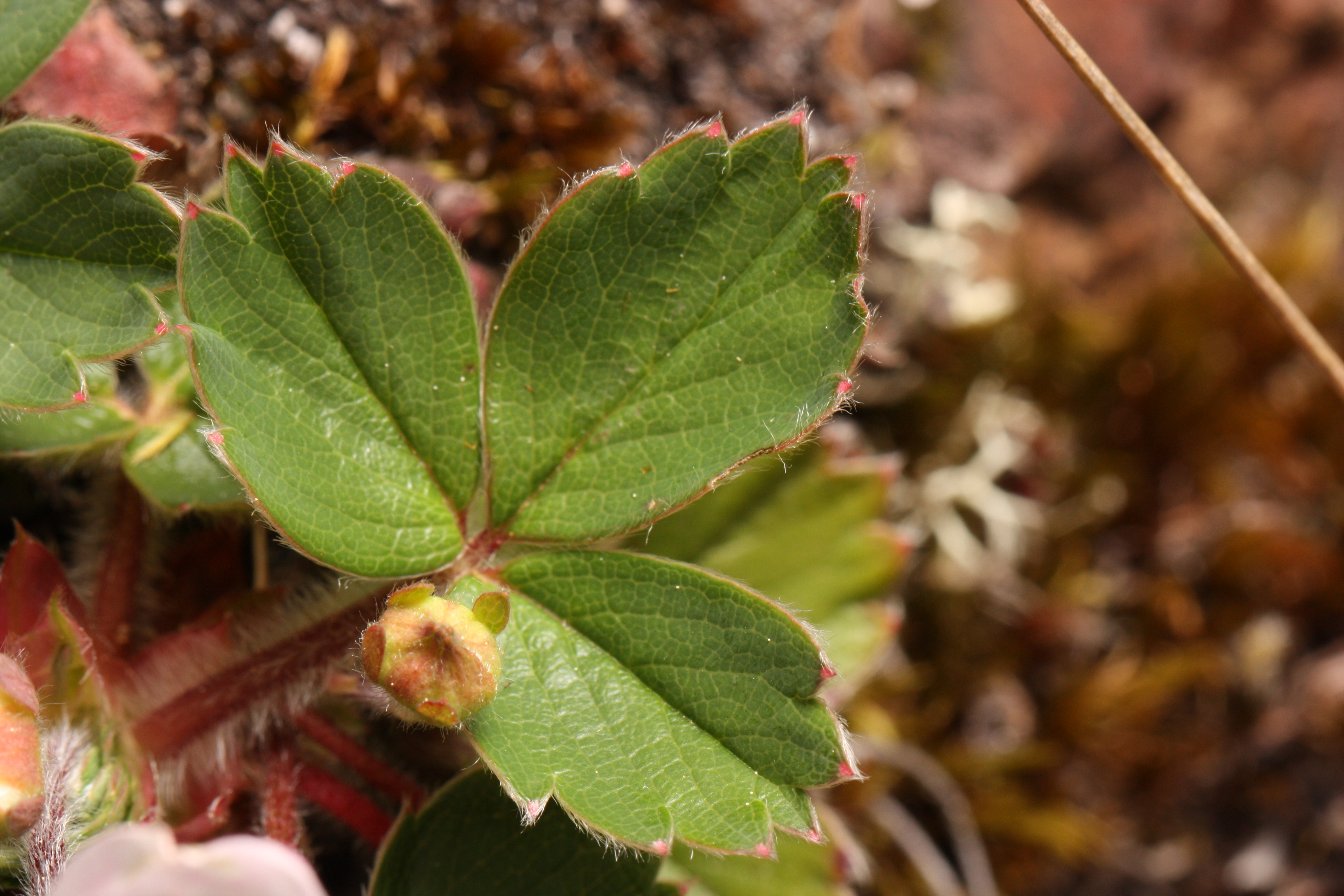 Virginia Strawberry, Blueleaf Strawberry Identification by: Self[1] Viewpoint location: Goose Rock Summit Trail, Deception Pass State Park Viewpoint elevation: 145 meter (476 ft) Location source: Google Earth Location Datum: WGS84